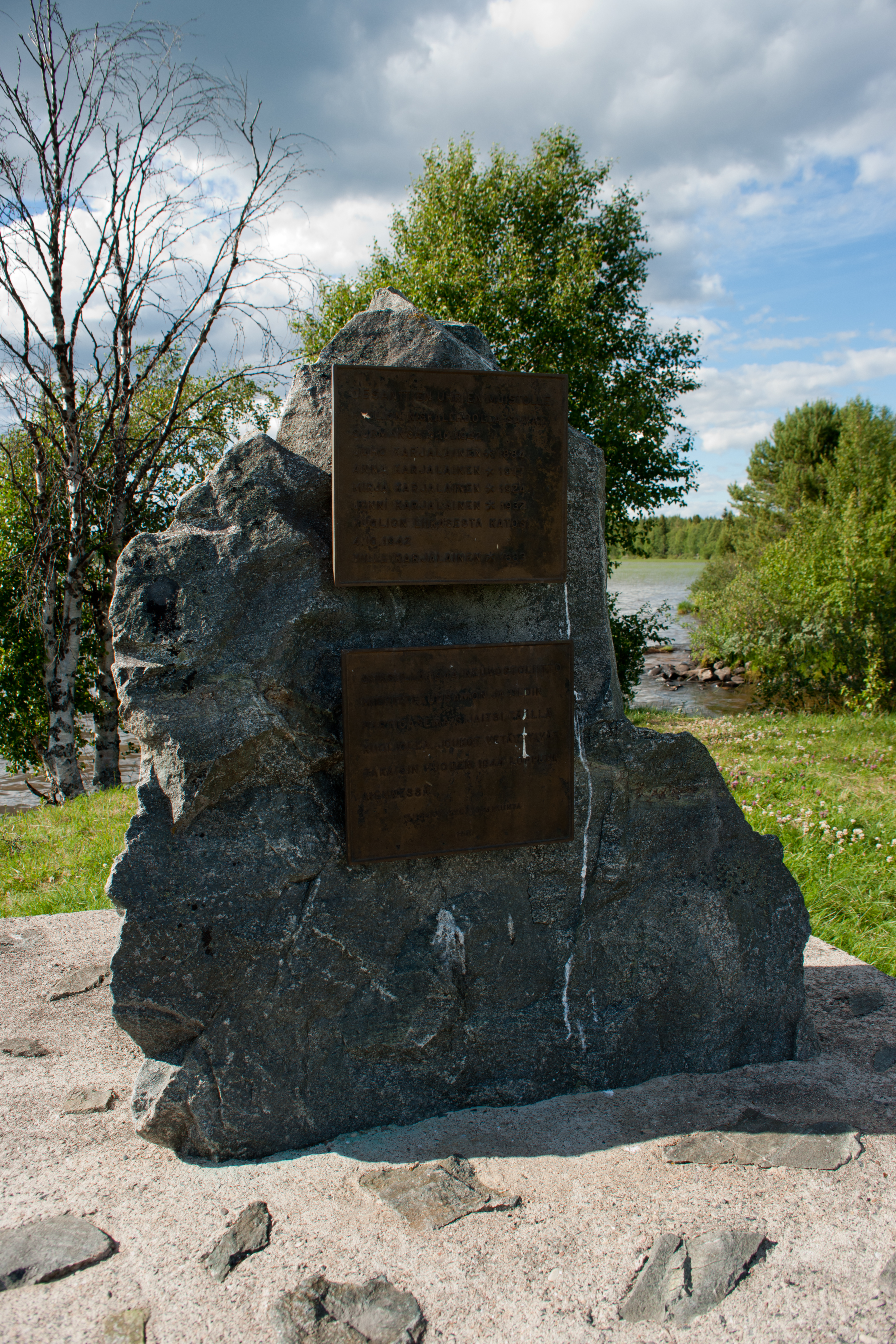 Memorial to civil victims of World War II, Kuusamo, Finland. The Monument is dedicated to the victims of the Soviets partisans in Kuusamo. Juho Karjalainen and his three daughters, who were killed on 3rd October 1942 by Soviet partisans. His wife was hit with nine bullets but managed to survive. Ville Karjalainen disapeared the next morning and was never found.